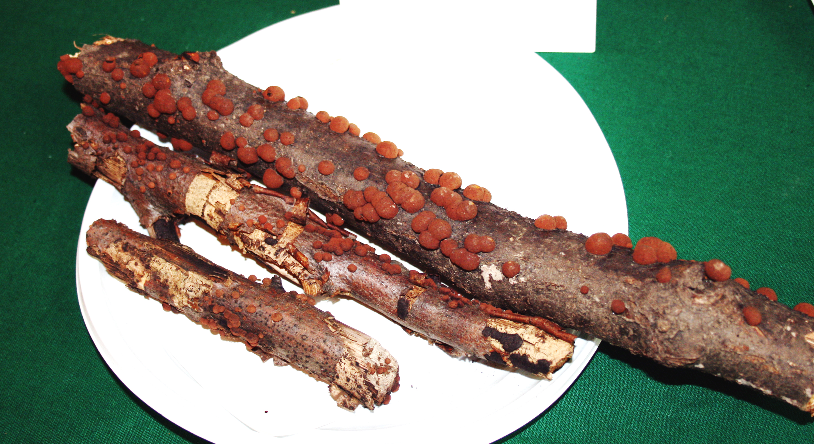 Hypoxylon fragiforme at the 12-th countrywide mushroom exhibition 2008, Žofín, Prague, Czech Republic Česky: Dřevomor červený, Hypoxylon fragiforme, 12. výstava hub, Praha-Žofín 20.–21. 9. 2008